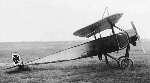 A captured Moran-Saulnier Type l with German insigna